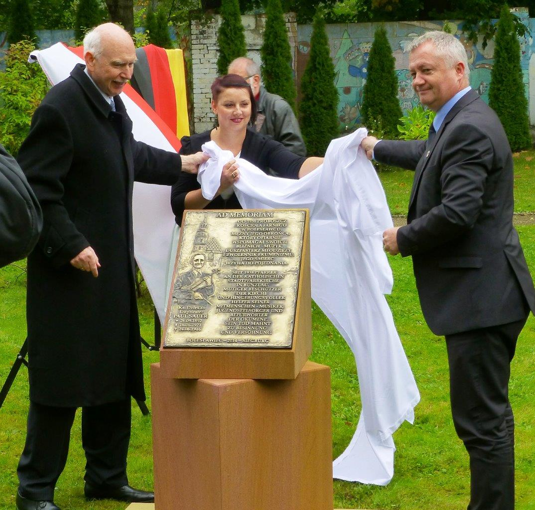 Unveiling of a memorial dedicated to Paul Sauer on the site of the youth cultural centre in Bolesławiec which was until 1956 used by the Ministry of Public Security. Depicted are the head of the Bundesheimatgruppe Bunzlau, Peter Börner, a staff member of the youth cultural centre and the starosta of Bolesławiec County, Dariusz Kwasniewski. The memorial was created by the artists Danuta Hopko (overall design), Aneta Szarlej (execution of the bronze plaque), and Tadeusz Łasica (base and column).